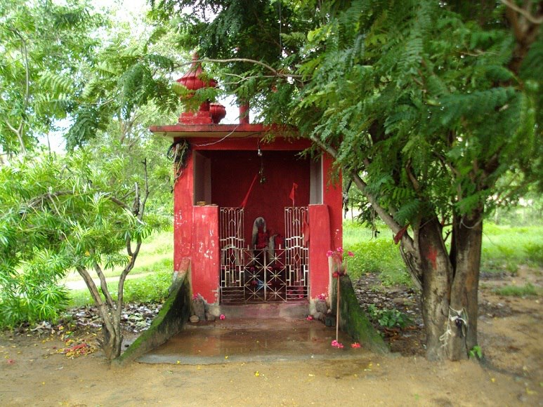 It is the picture of the temple of Goddess of the village Maa Pataneswari.